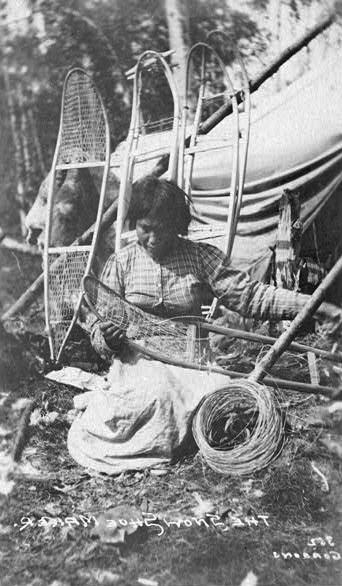 Snow shoe maker, photograph taken between circa 1900 and circa 1930. Note that this image is NOT reversed despite the mirror-image writing (see discussion below). This image is taken from the Library of Congress online catalog, cropped and edited to improve contrast. According to the Library it is not subject to copyright restrictions. See catalog information below. TITLE: Woman making snow shoes CALL NUMBER: LOT 11453-4, no. 2 [P&P] No known restrictions on reproduction. REPRODUCTION NUMBER: LC-USZ62-133503 (b&w film copy neg.) No known restrictions on publication. MEDIUM: 1 photographic print. CREATED/PUBLISHED: [between ca. 1900 and ca. 1930] NOTES: Title transcribed from caption accompanying item; caption is backwards on photo. Photo by Gordons. Forms part of: Frank and Frances Carpenter collection (Library of Congress). Gift; Mrs. W. Chapin Huntington; 1951.